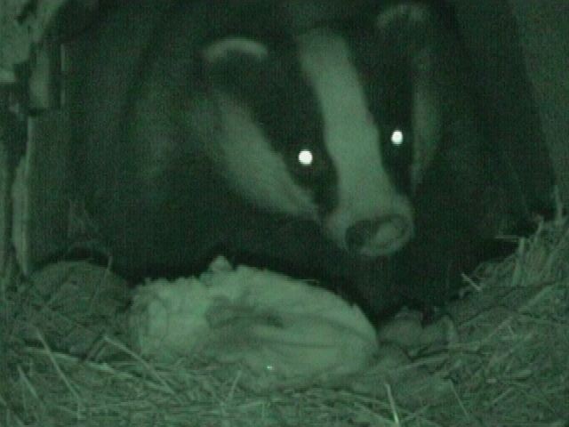 Badger, m, 4 years old